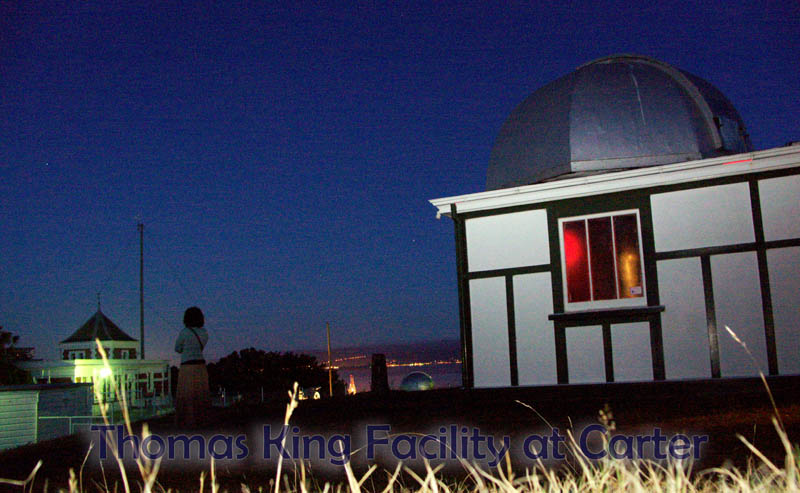 Thomas King Observatory building at Carter Observatory, The National Observatory of New Zealand, photo by Paul Moss paul moss wellington New Zealand photographer